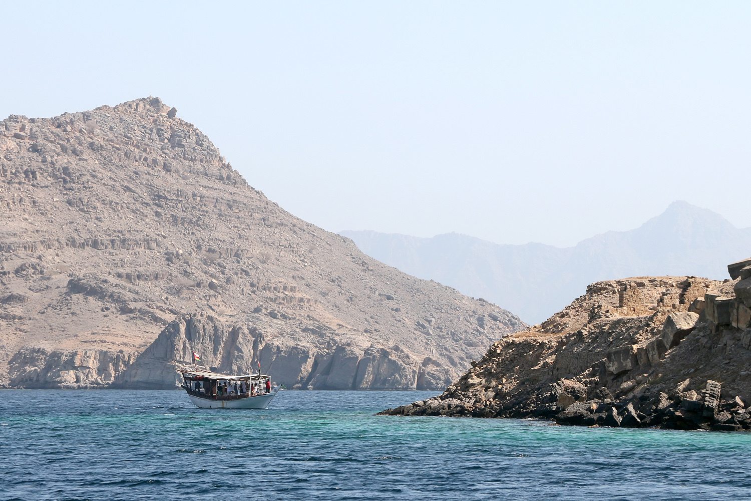 Dhow in the fjords of Khasab, Oman